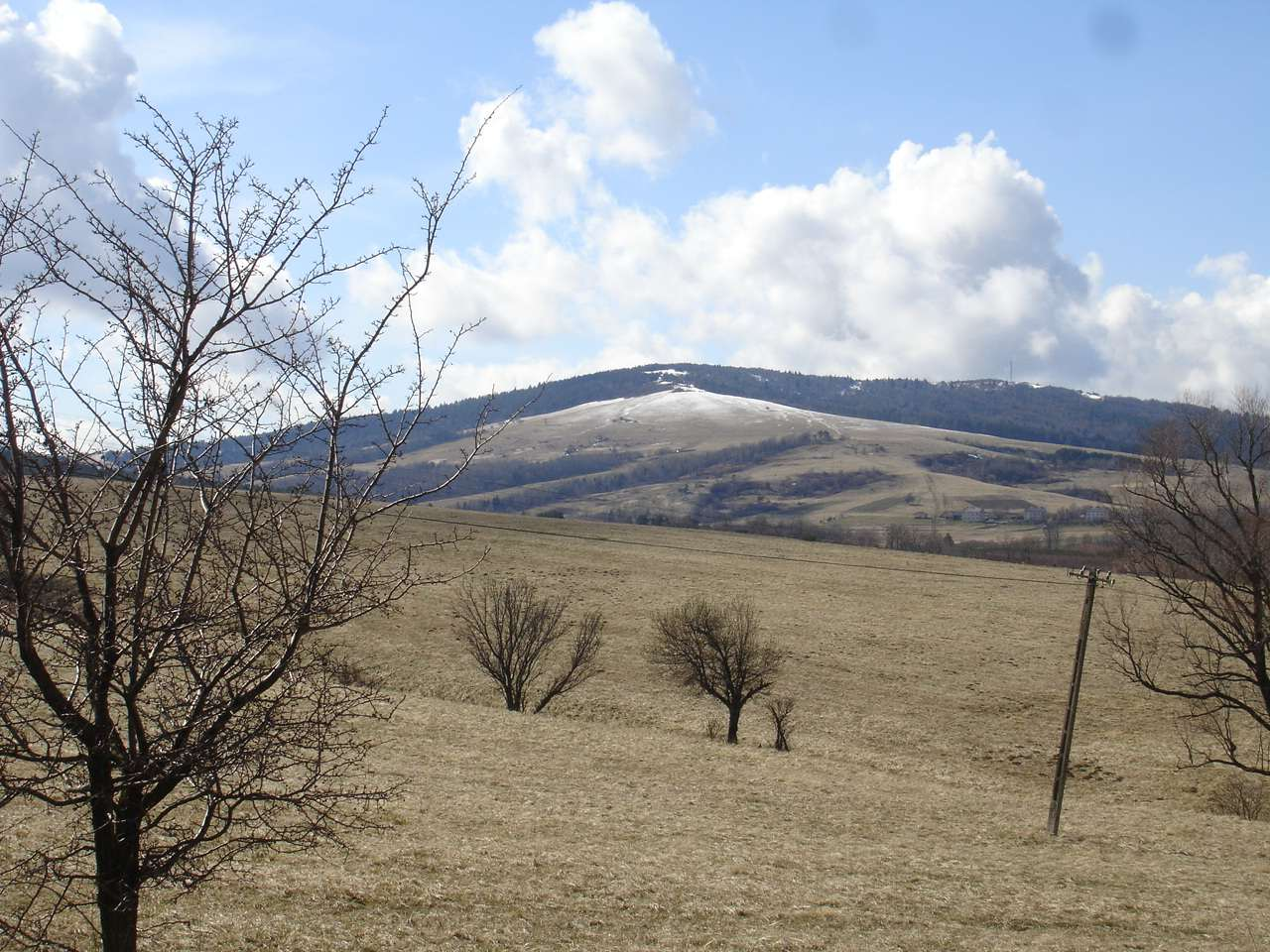 Tokarnia Peak (Gmina Bukowsko)